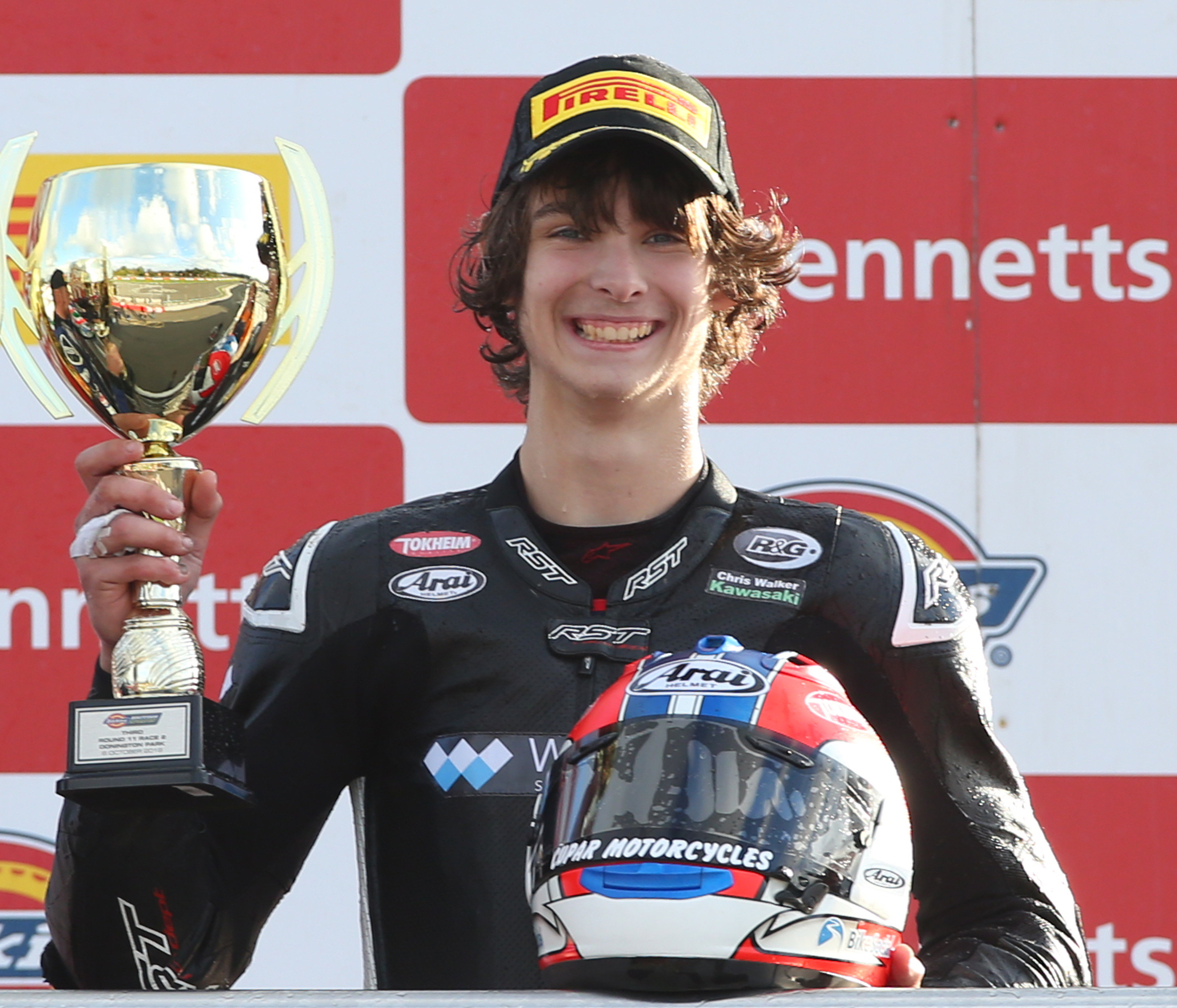 Rory Skinner, third place in the Donington Park round of the 2019 Dickies British Supersport Championship